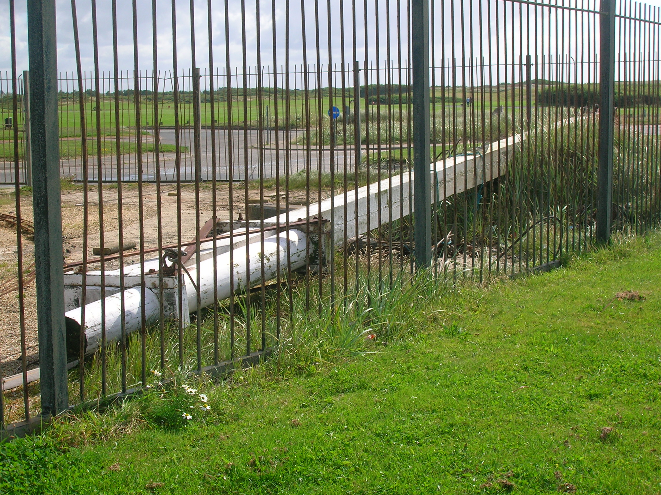 Boyd's Automatic tide signalling apparatus, Irvine, North Ayrshire, Scotland. The remains of the 'black balls' mast.Rosser 19:51, 26 August 2007 (UTC)